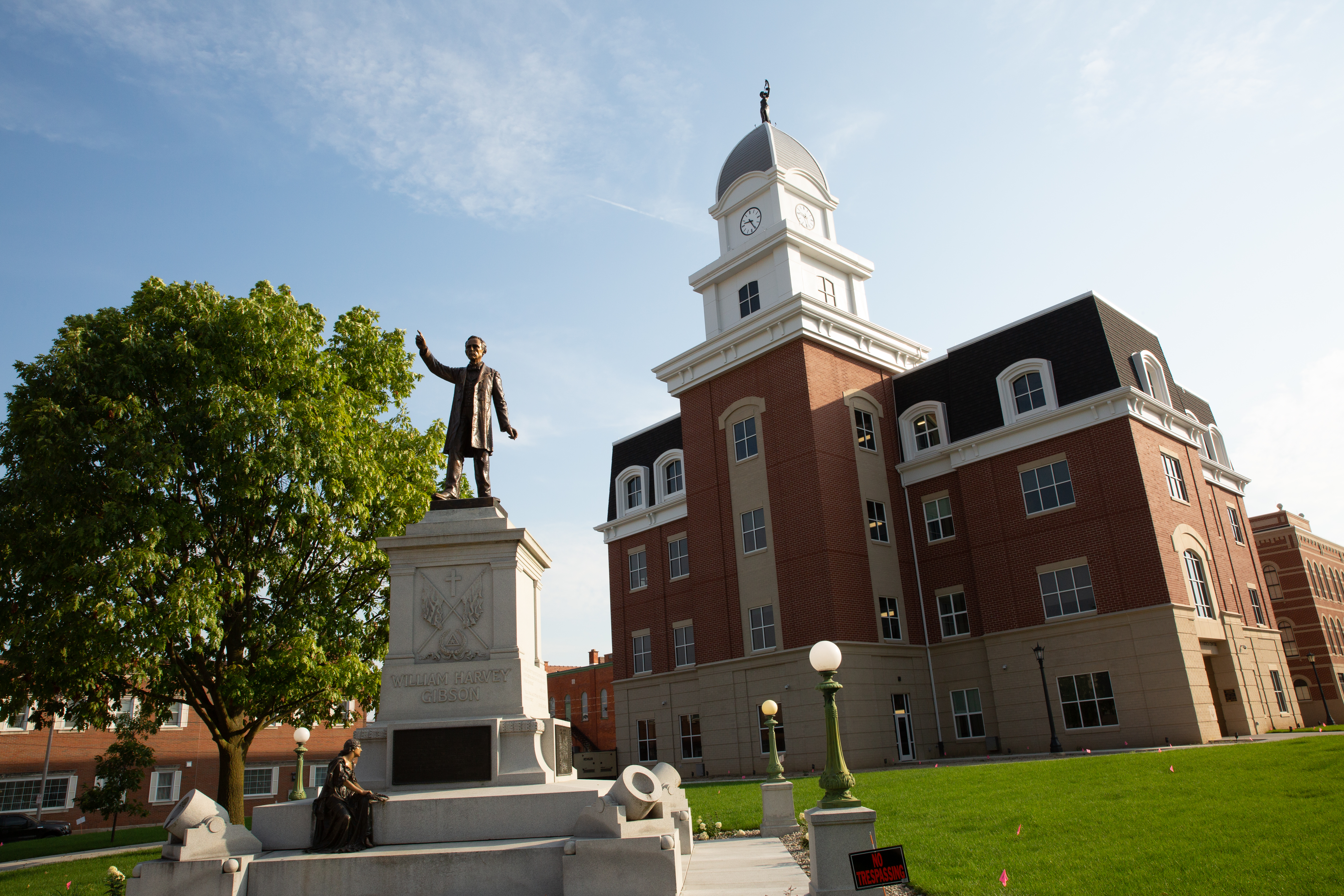 Picture of the Seneca County Justice Center